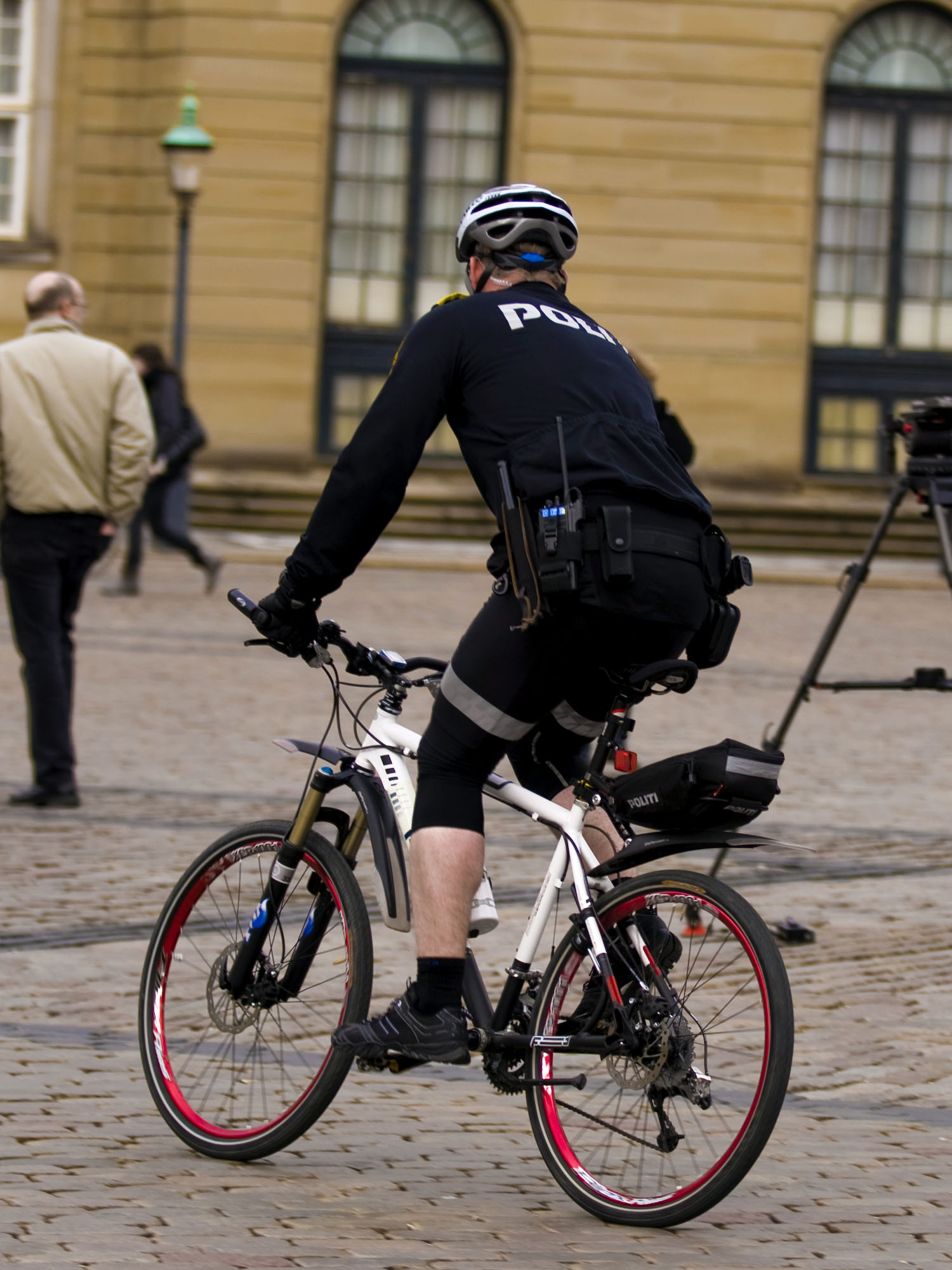 Danish police officers on a bicycles